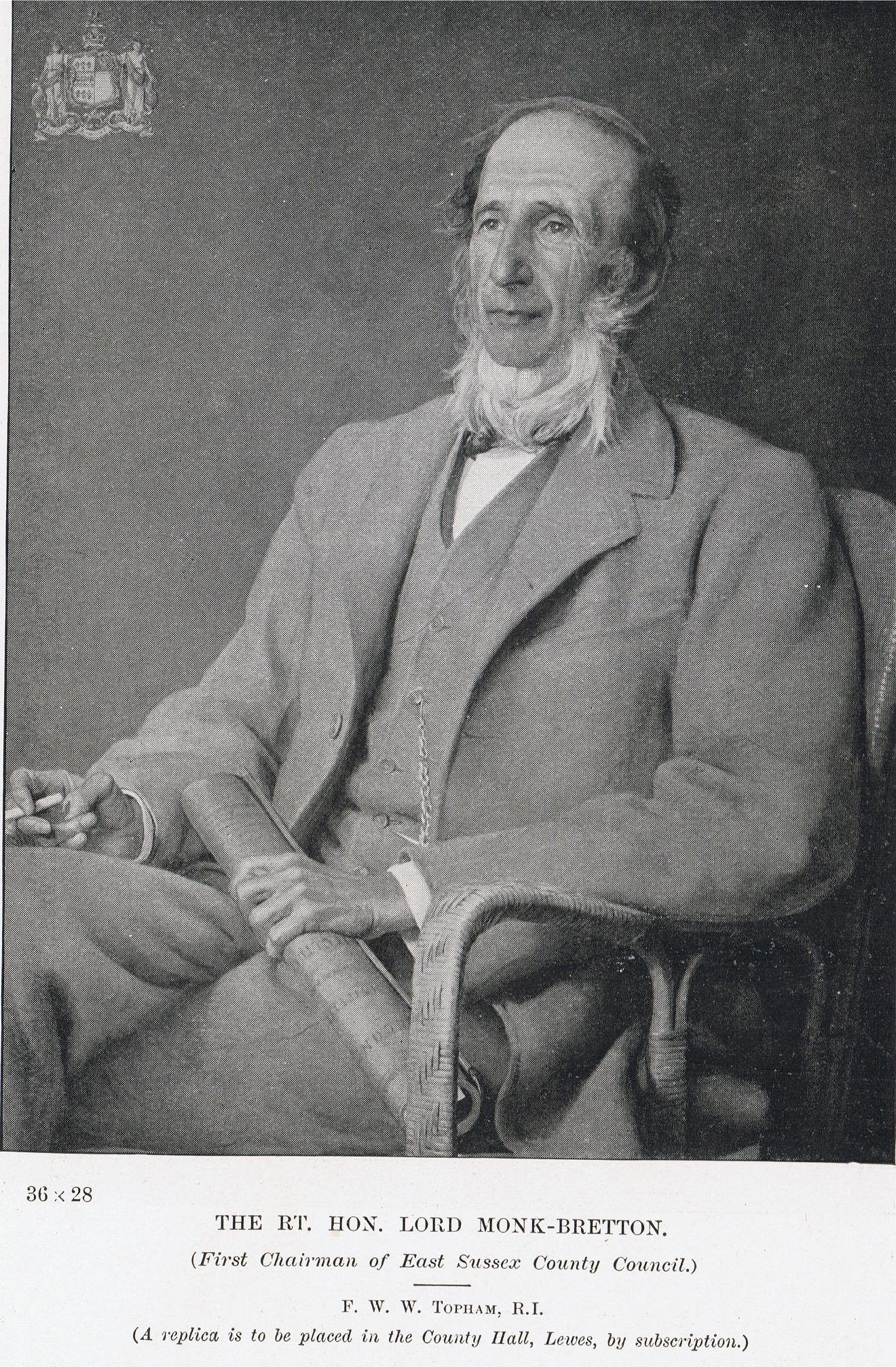 Topham's portrait of John George Dodson, the first Lord Monk Bretton, as seen in the Royal Academy, 1897.